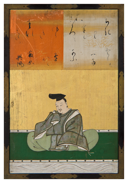 Sanjūrokkasen-gaku (Thirty-six Poetry Immortals framed picture) #20: Fujiwara no Okikaze